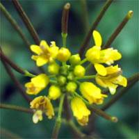 Sisymbrium irio at Circle X Ranch: Yerba Buena roadside, Santa Monica Mountains National Recreation Area, California, USA.